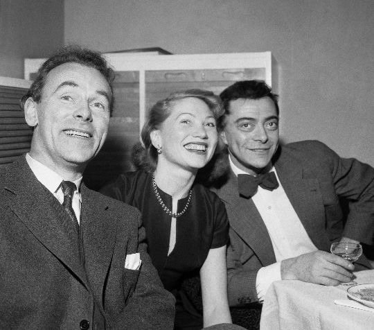 Photograph of the Swedish actor Nils Poppe, dancer Ellen Halvorsen and stage director Albert Gaubier during their visit to Helsinki where they performed at the Swedish Theater in Lajos Lajtai’s operetta Boys in Blue.